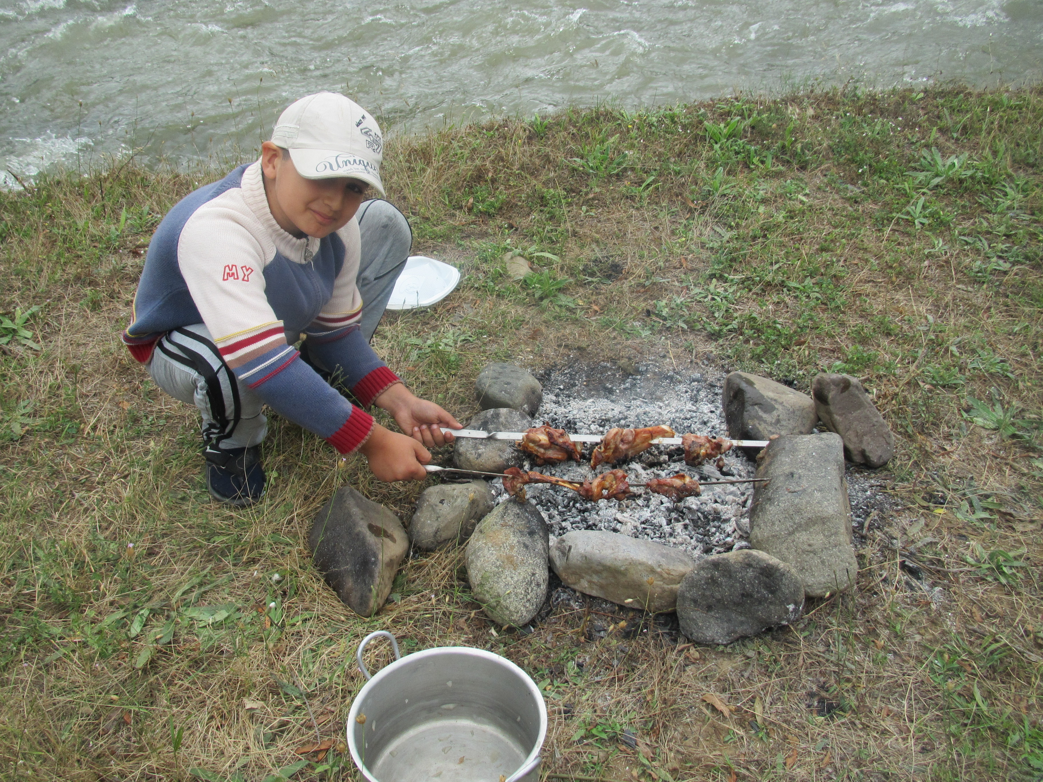 Azeri boy Avaz, is cooking kebab on picnic. He is at the riverside in Gadabay. Gadabay is the district of Azerbaijan.